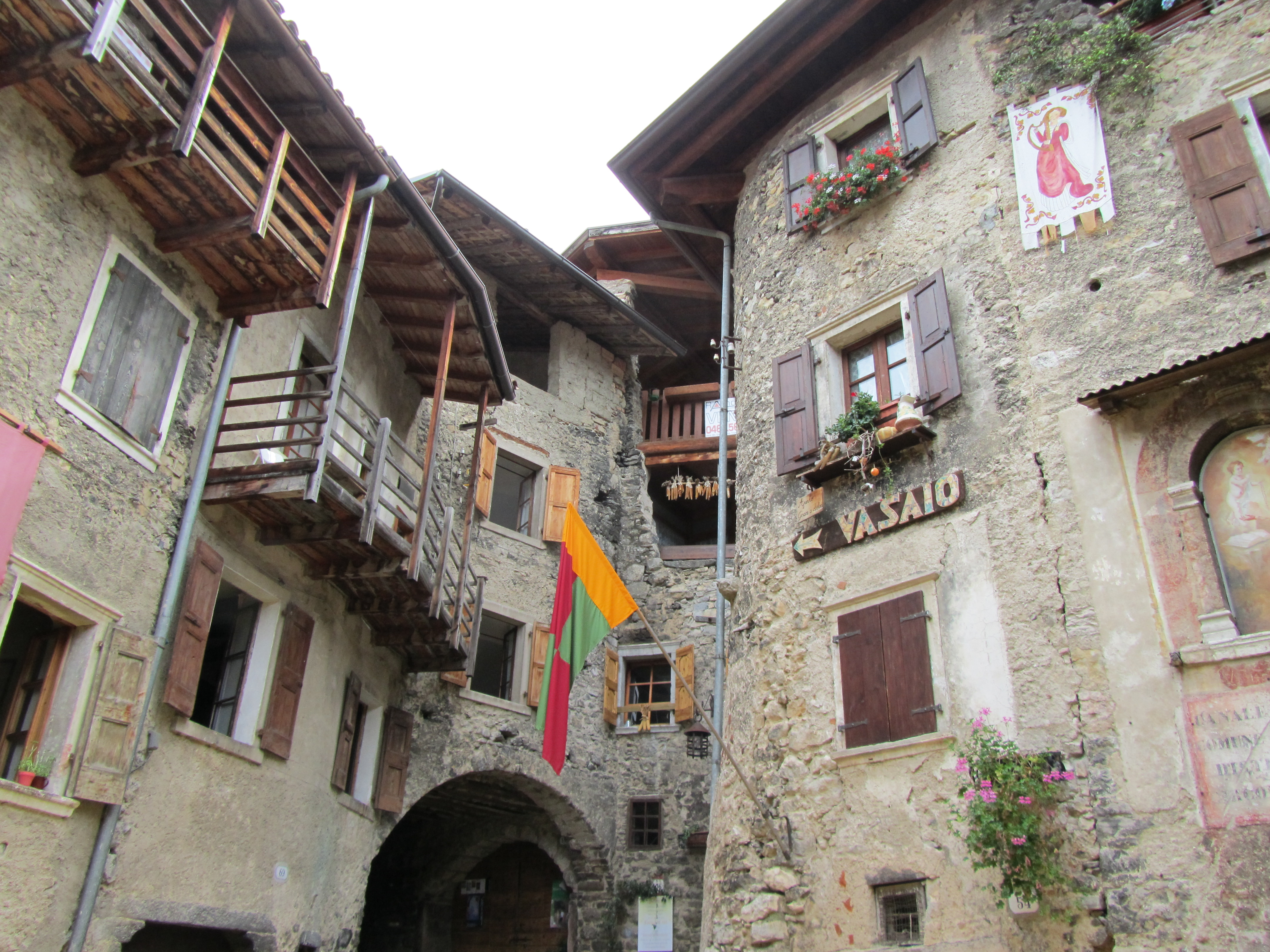 Canale di Tenno medieval village